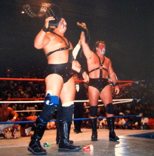 Professional wrestlers Ax (Bill Eadie) and Smash (Barry Darsow) as WWF Tag Team Champions during their time as Demolition